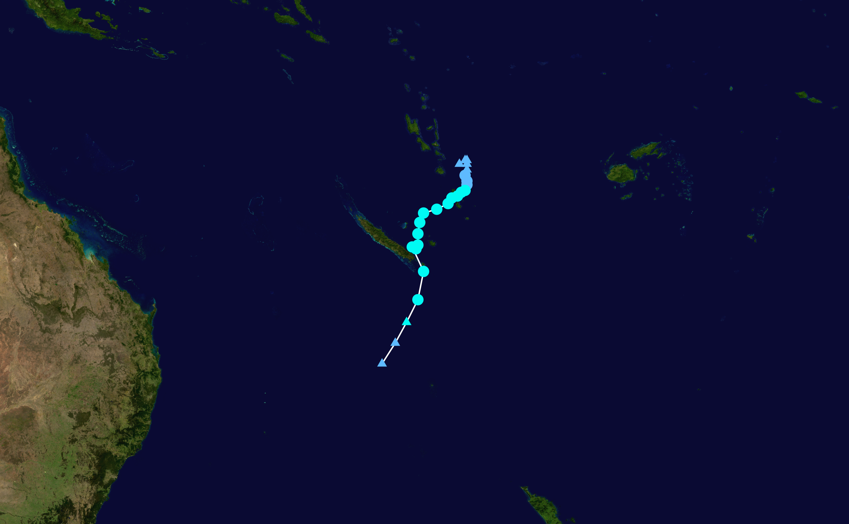 Track map of Tropical Cyclone Vania of the 2010-11 South Pacific cyclone season. The points show the location of the storm at 6-hour intervals. The colour represents the storm's maximum sustained wind speeds as classified in the Saffir–Simpson scale (see below), and the shape of the data points represent the nature of the storm, according to the legend below. Saffir–Simpson scale Tropical depression≤38 mph≤62 km/h Category 3111–129 mph178–208 km/h Tropical storm39–73 mph63–118 km/h Category 4130–156 mph209–251 km/h Category 174–95 mph119–153 km/h Category 5≥157 mph≥252 km/h Category 296–110 mph154–177 km/h Unknown Storm type Tropical cyclone Subtropical cyclone Extratropical cyclone / Remnant low / Tropical disturbance / Monsoon depression